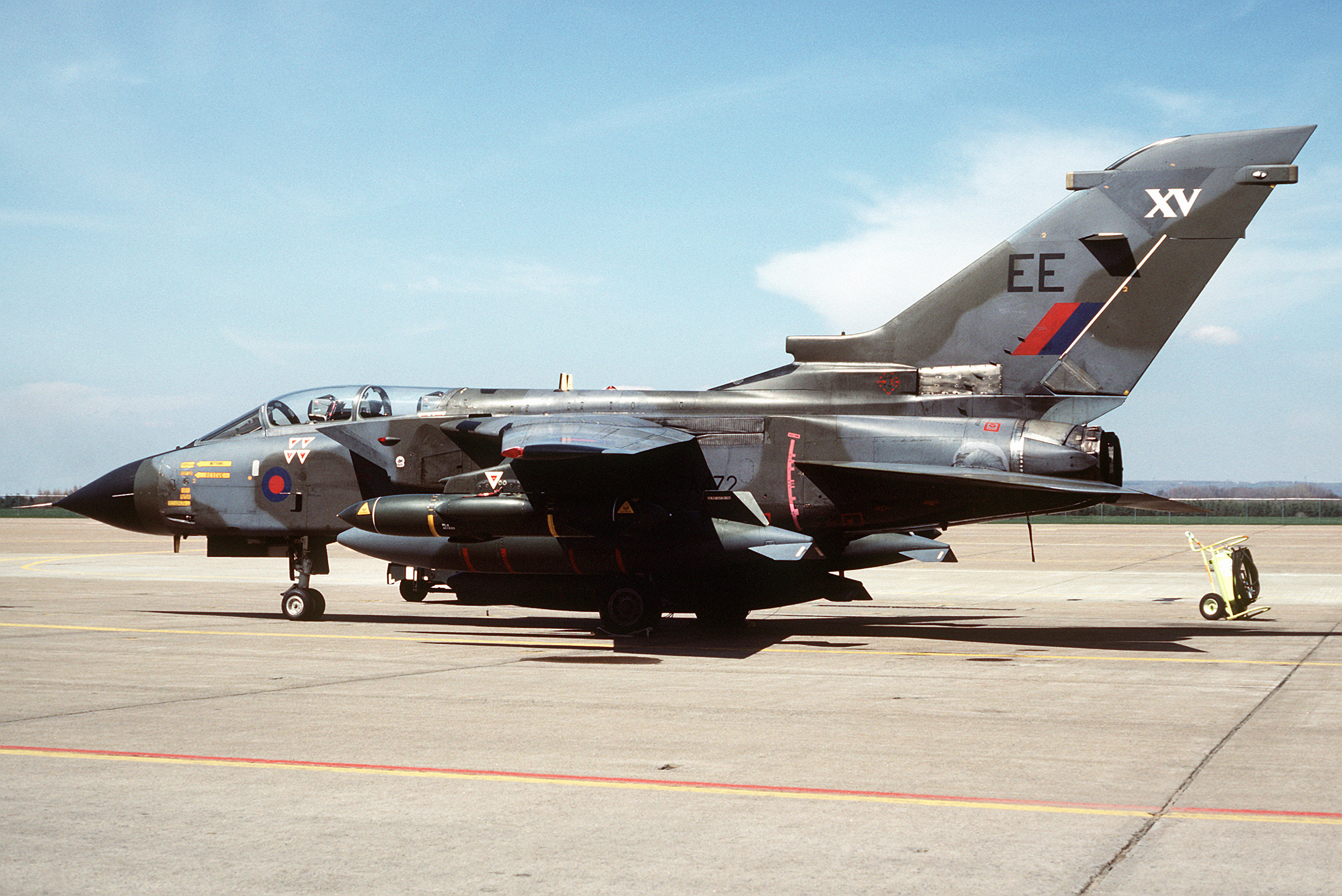 A British Panavia Tornado GR1 aircraft of No. 15 Squadron, Royal Air Force, parked on the flight line at Wright-Patterson Air Force Base, Ohio (USA), on 13 April 1987.